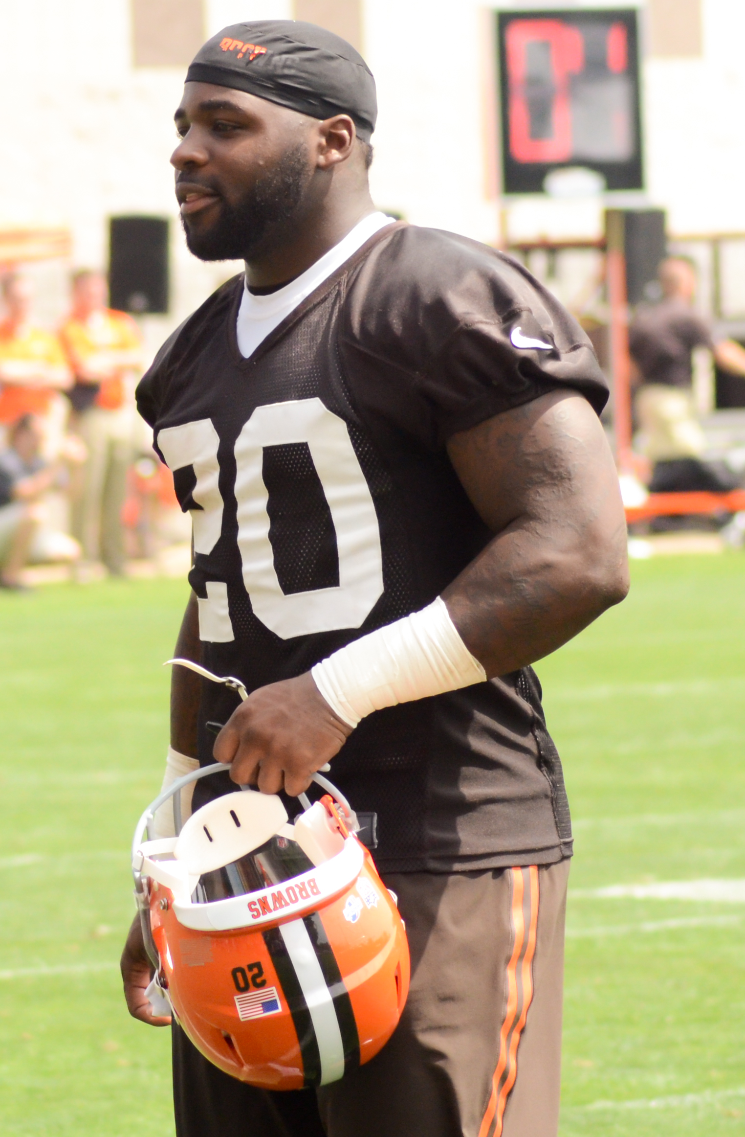 Terrance West at 2014 Browns training camp.